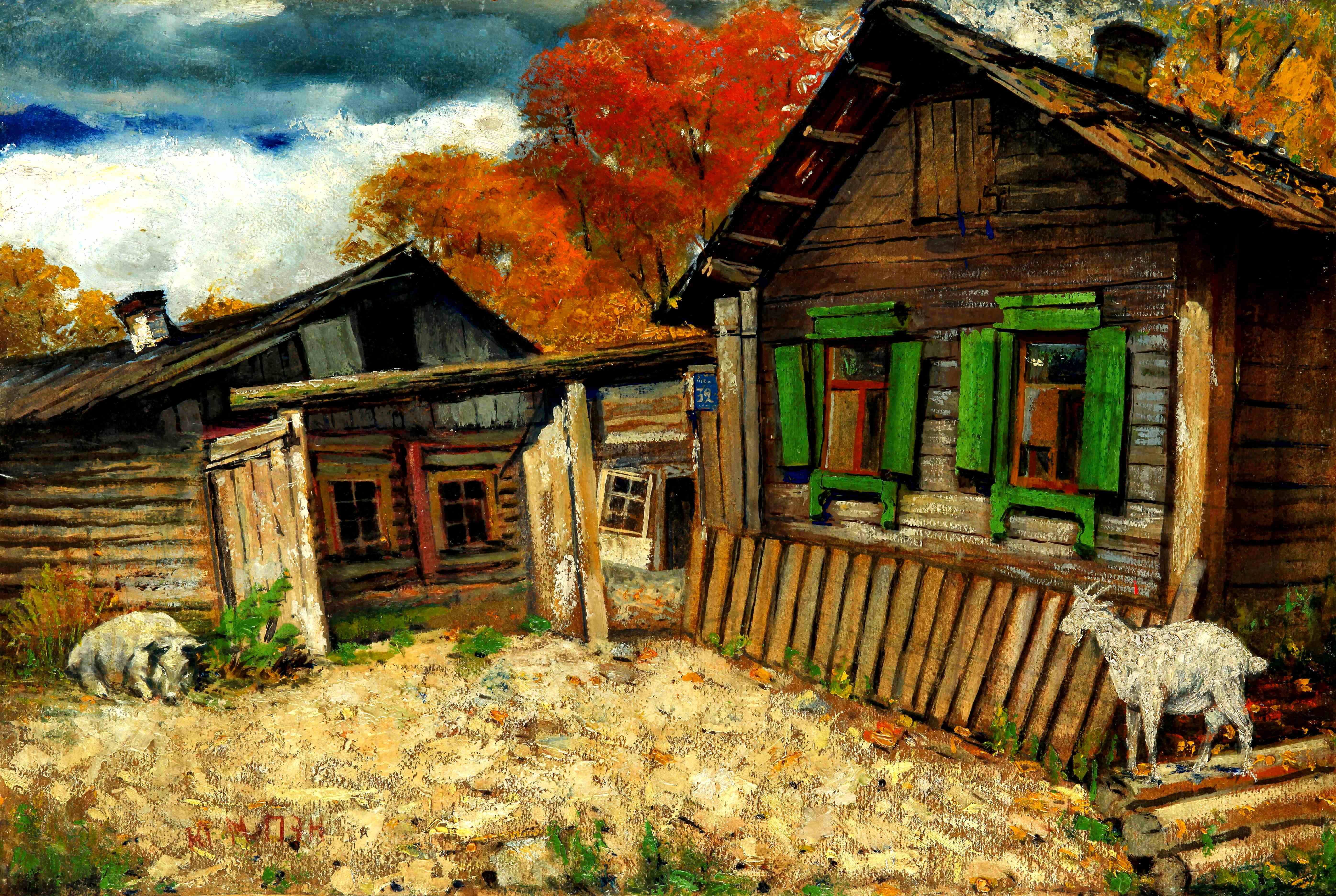 Yehuda Pen. House with a Goat. 1920s. Oil on cardboard. National Arts Museum of the Republic of Belarus Native nameНацыянальны мастацкі музей Рэспублікі БеларусьLocationMinsk, BelarusCoordinates53° 53′ 54″ N, 27° 33′ 38″ E Established1939Website control : Q2584571